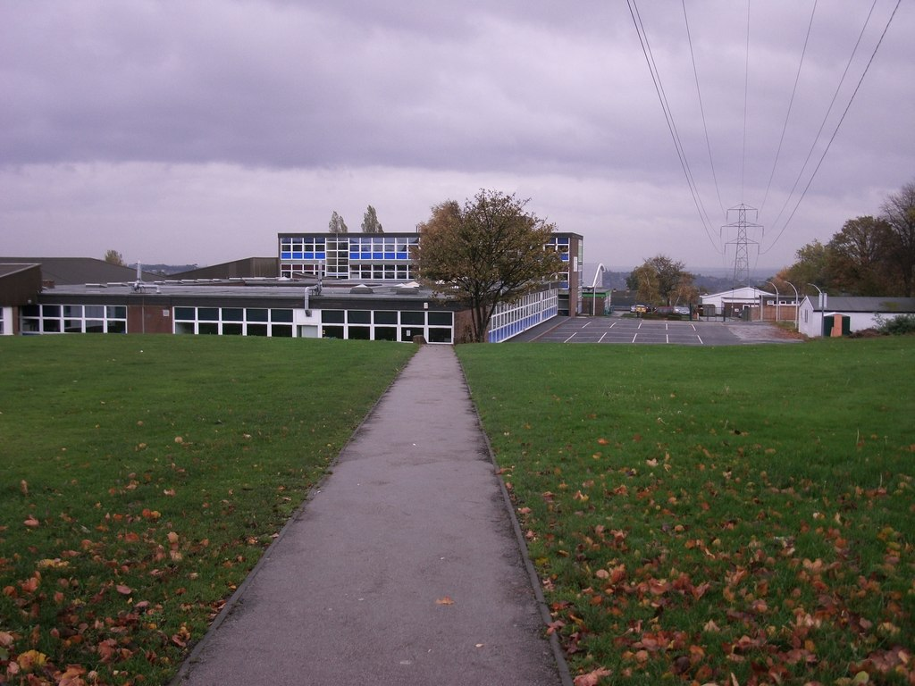 Pylons and Thornhill Community Academy